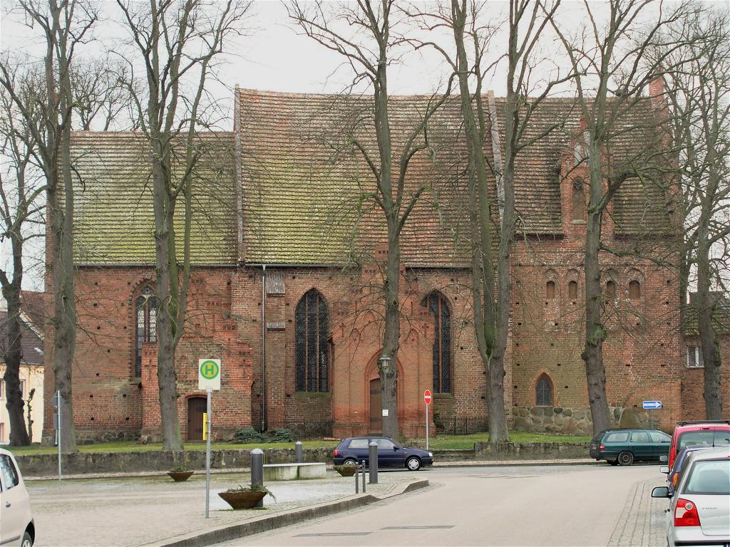 Brüel, Mecklenburg, Germany: townhall, photo 2007